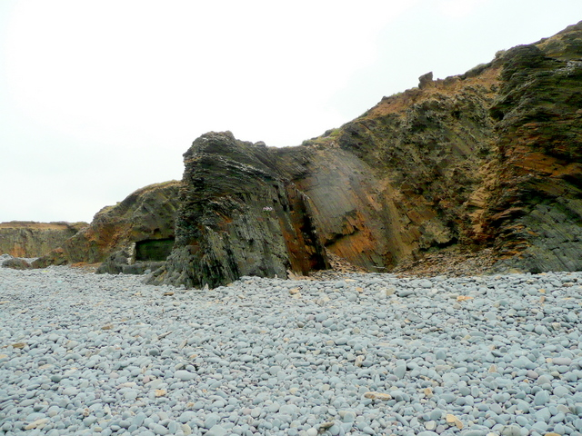 Abbotsham Cliff Looking north-east from the normal high tide line.